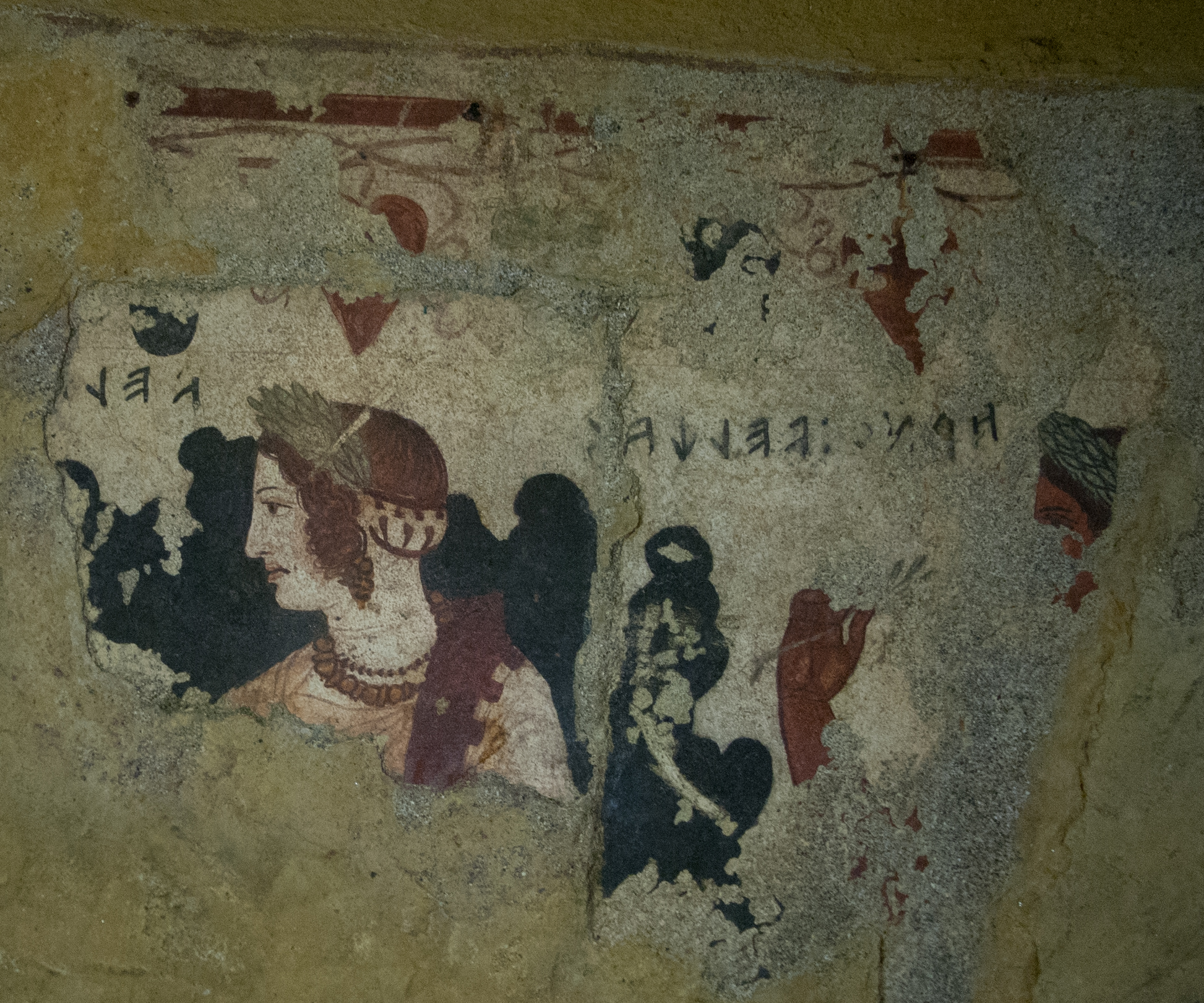 Fresco of Velia Velχa, Tomb of Orcus I, Tarquinia, Italy.